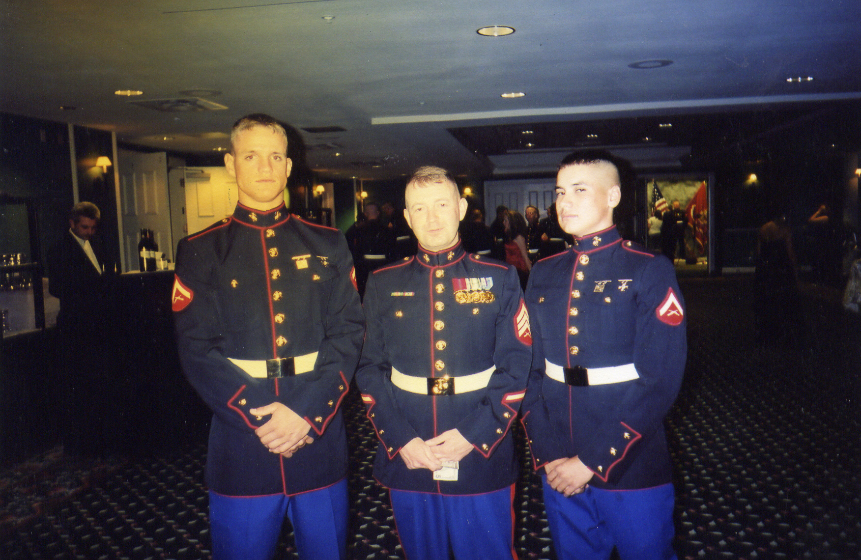 SCIO, N.Y. (March 23, 2007) - Image submitted on occasion of the Department of Navy announcement that the Navy's newest Arleigh Burke-class guided missile destroyer will be named USS Jason Dunham (DDG 109), honoring the late Cpl. Jason L. Dunham, the first Marine awarded the Medal of Honor for Operation Iraqi Freedom. The Secretary of the Navy, the Honorable Donald C. Winter, made the announcement in Dunham’s hometown of Scio, N.Y. U.S. Navy photo (RELEASED)